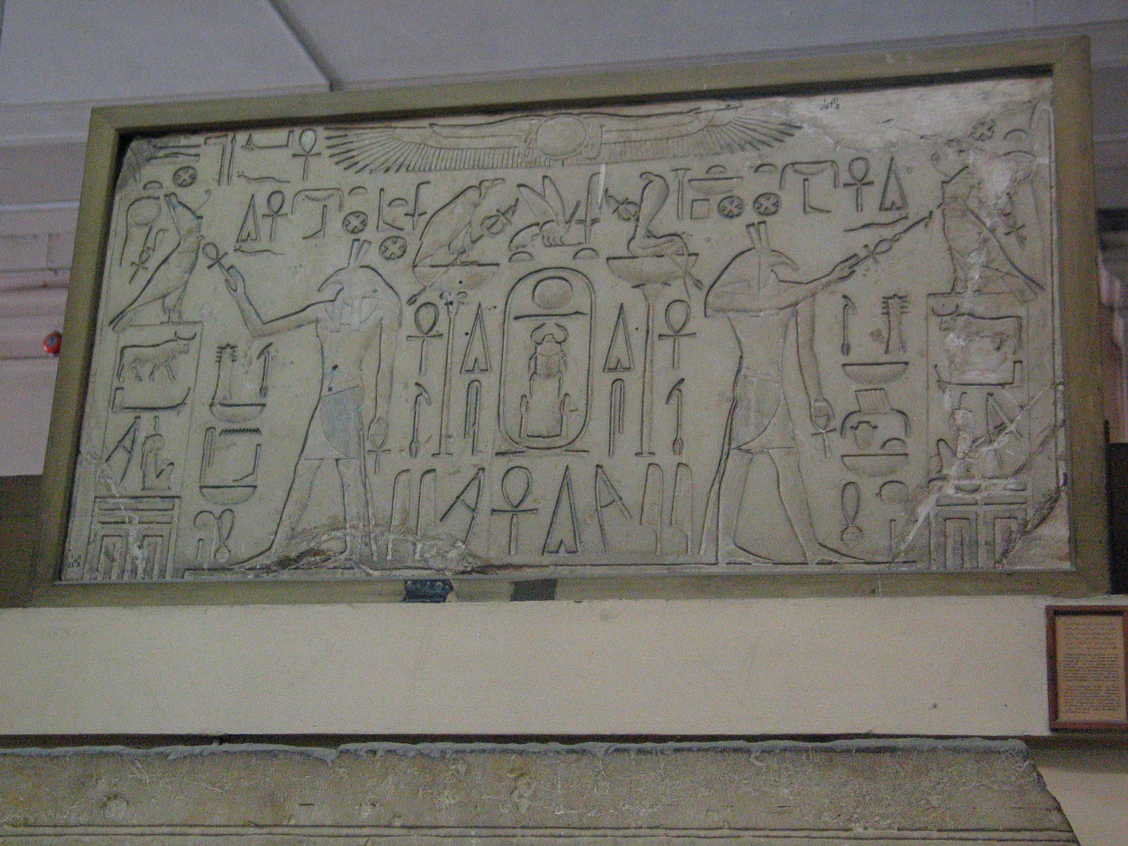 Stela of Tuthmosis I from Kom Bilal (near Deir el-Ballas). Cairo, Egyptian Museum, main floor, room 12, JE 31881